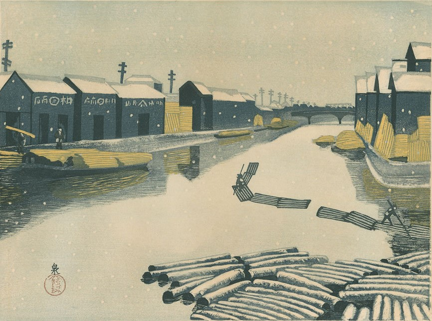 Woodcut, Lumberyards at Kiba, Tokyo in the snow